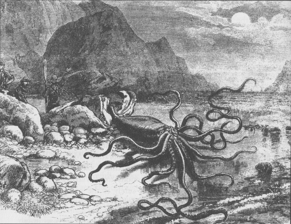 Giant squid that washed ashore at Trinity Bay, Newfoundland in 1877. Published in Canadian Illustrated News, October 27, 1877.